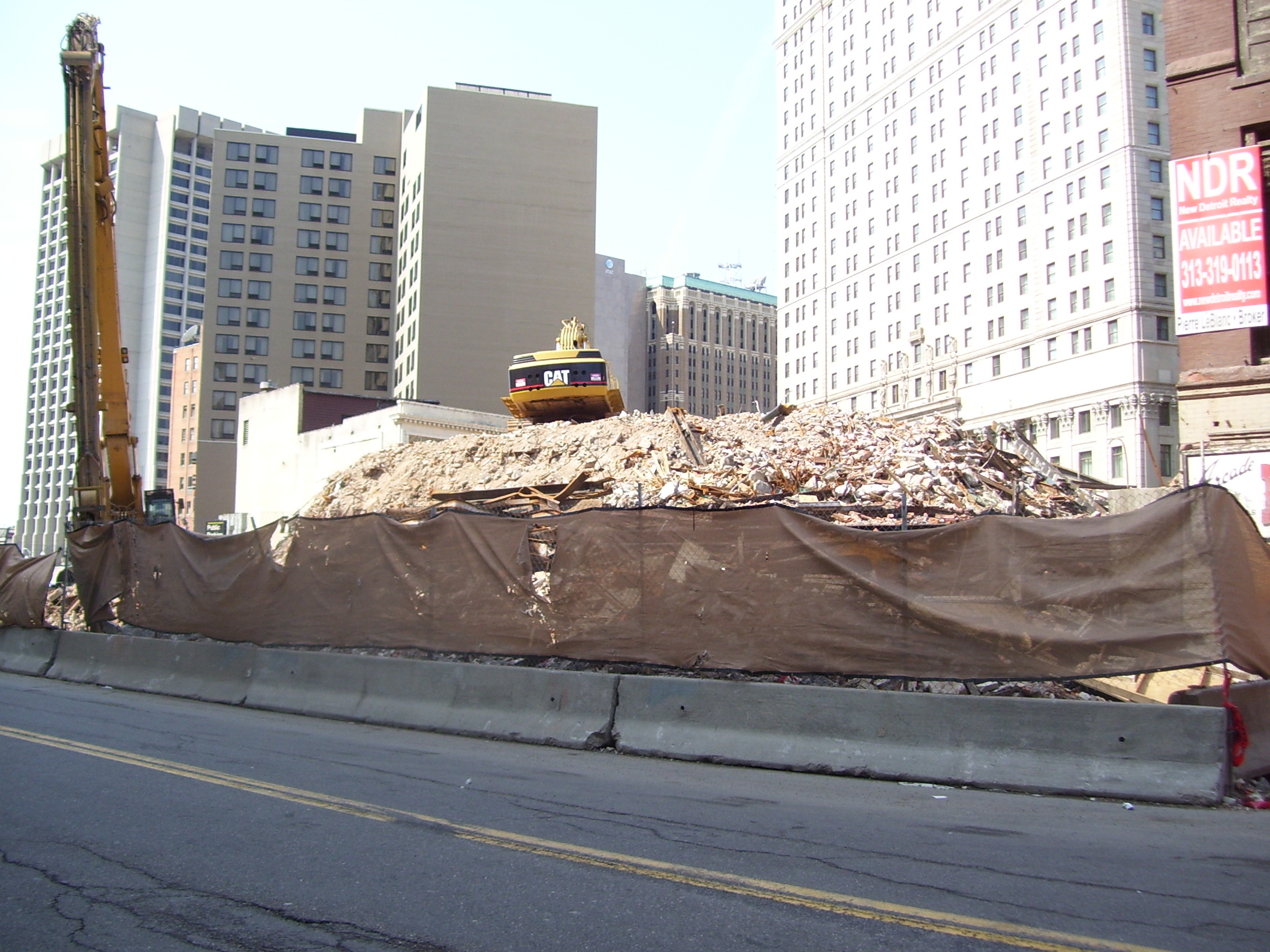 This is the rubble that was once the Lafayette Building in Detroit, Michigan.